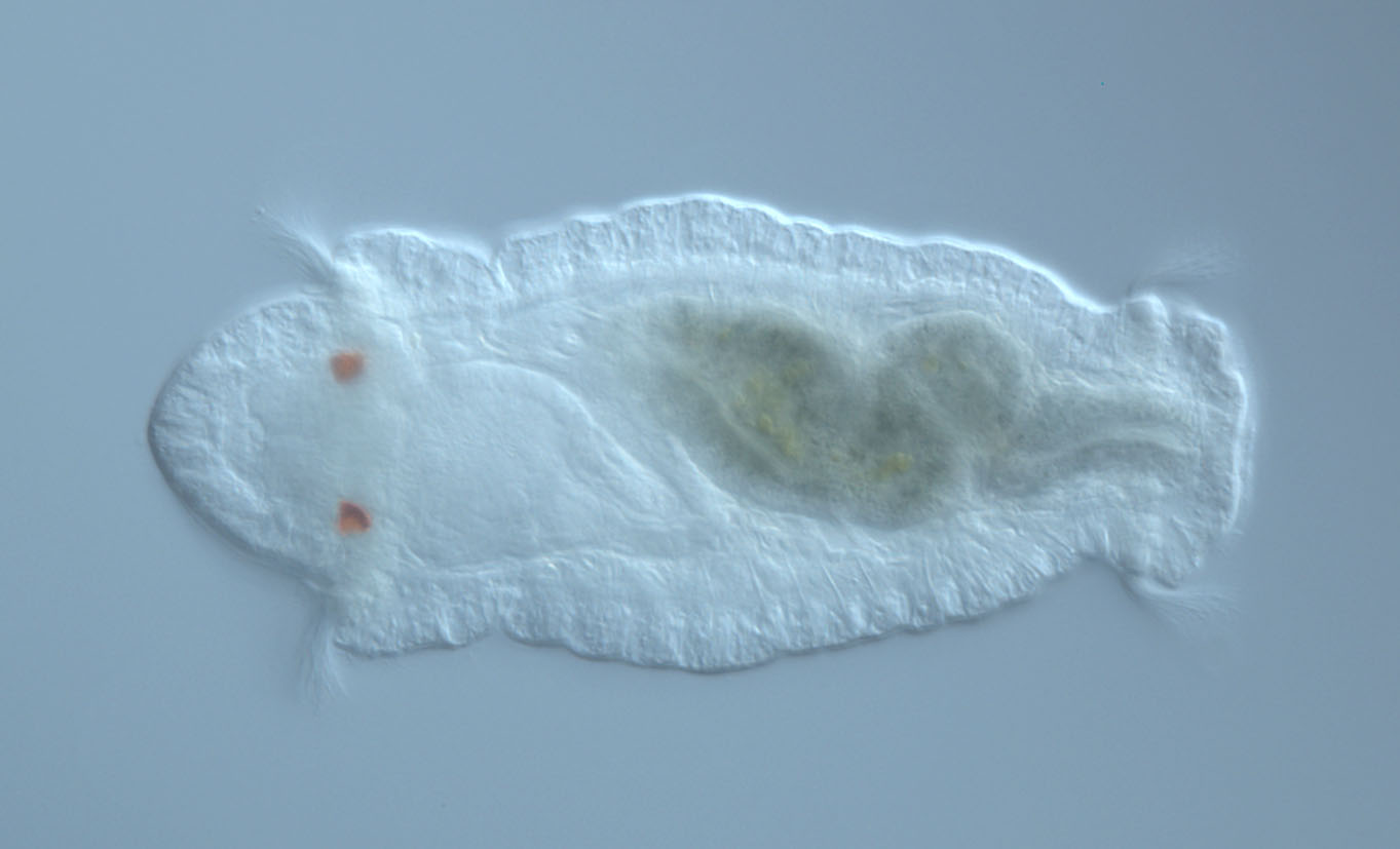 stage 9